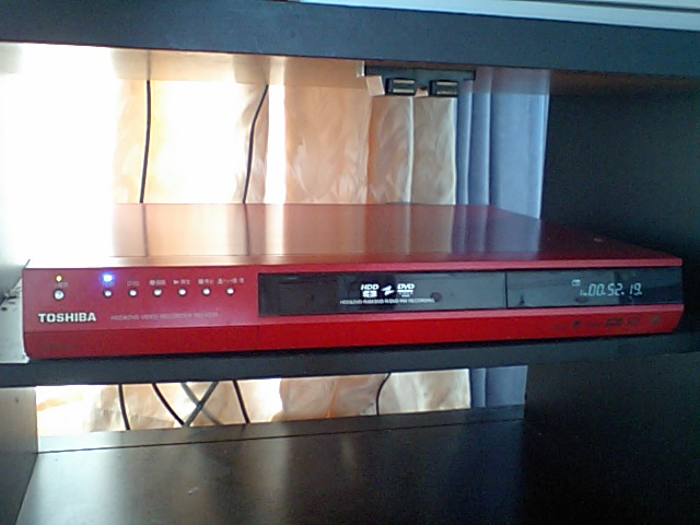 TOSHIBA RD-XS33